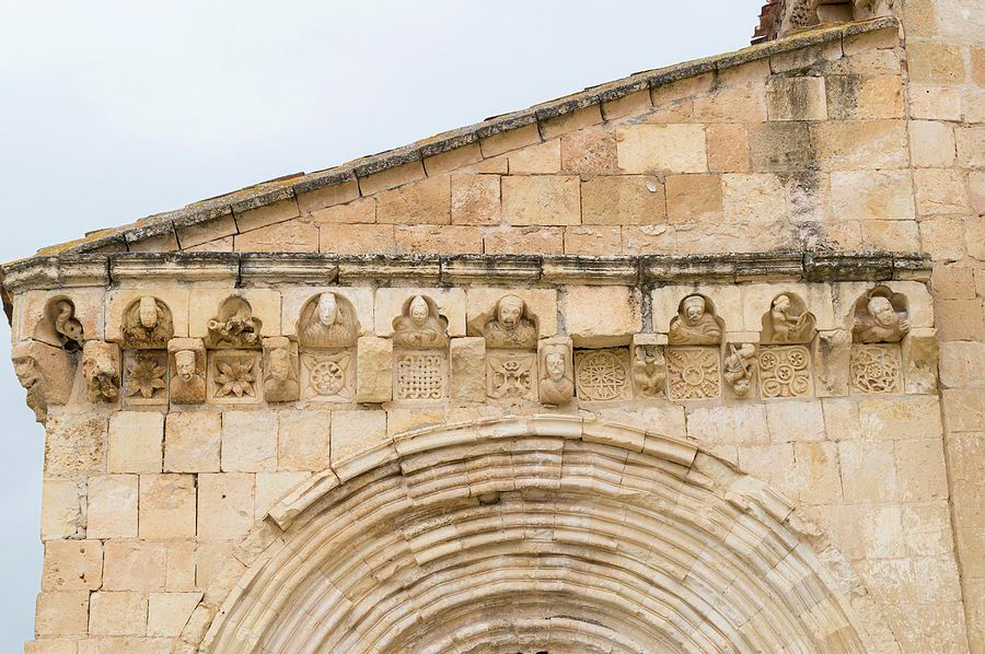 Iglesia románcia de San Miguel siglo XII en Sotosalbos